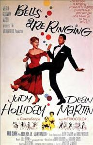 Poster for the film Bells Are Ringing (film)